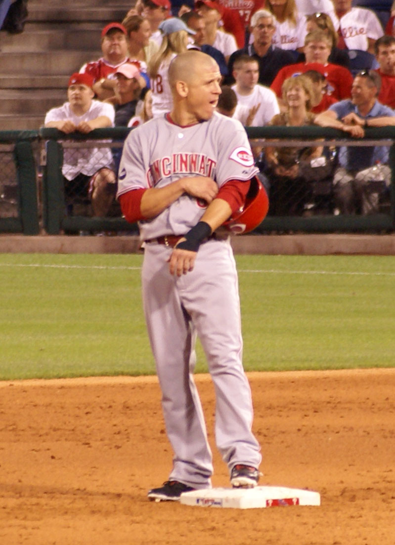 Description Ryan Freel on second base against the Phillies. Date06/02/08SourceI created this work entirely by myself.AuthorBlevine37 (talk) 00:42, 12 June 2008 . . Blevine37 . . 799×1,103 (180 KB) Ryan Freel on second base against the Phillies.